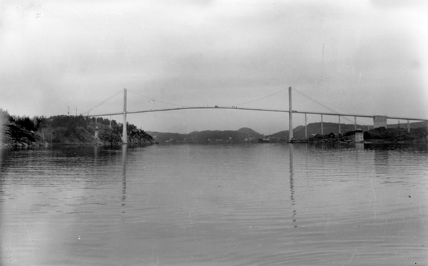 Opening of the Vrengen bridge